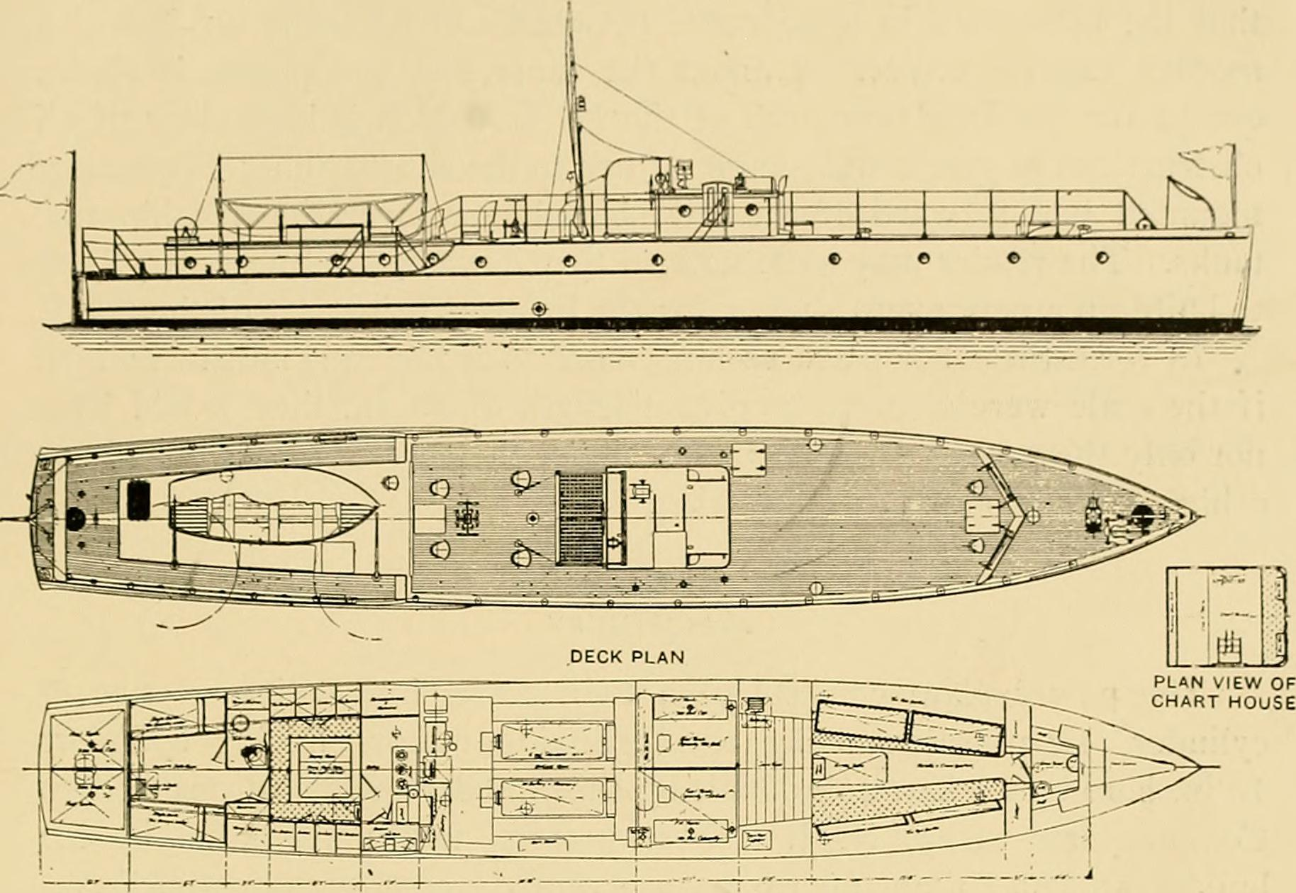 Title: Cinderellas of the fleet Year: 1920 (1920s) Authors: Nutting, William Washburn, 1884-1924 Subjects: Submarine chasers World War, 1914-1918--Naval operations--Submarine Publisher: Jersey City, N.J. : Standard Motor Construction Co. Text Appearing Before Image: lded, spaced12 in. center to center. Heavy frames at bulkheads, 2^4 in. by234 in. Deck planking; Oregon pine in strips, 2-)^ in. wide by lys in. thick. Deck beams; white oak, sided 1^ in., molded 2^ in. Keel; white oak, sided 4 in. Keelson; yellow pine, 4 in. by 5 in. Floors; galvanized wrought iron, 1^ in. wide, ^ in. thick at center,tapered to ^, in. at ends. Knees connecting frames to beams; wrought, 3 in. by ^ in. Upper clamp; yellow pine, 1^ in. by 4^ in. Main clamp; yellow pine, Ij/^ by 4^ in. Main clamp; yellow pine, 1^/2 by ^jA in. Hogging clamp; yellow pine, IJ^ in. by 5^/2 in. Side keelson; yellow pine, I34 in. by 63^4 in. Bilge stringer; yellow pine, 13^ in. by 4^^ in. Bulkheads; six steel, about yi in. thick, located at frames Nos. 6, 26,40, 47, 52 and 71. The bulkheads at the ends of the gasolinecompartment were made gasoline tight by the use of a specialpaint composed of litharge, glycerine and shellac. (Continued on page 172) THE CIXI)l£Rl£LLAS 01- Till-: ll.KI-.T 171 Text Appearing After Image: INTERIOR ARRANGEMENT